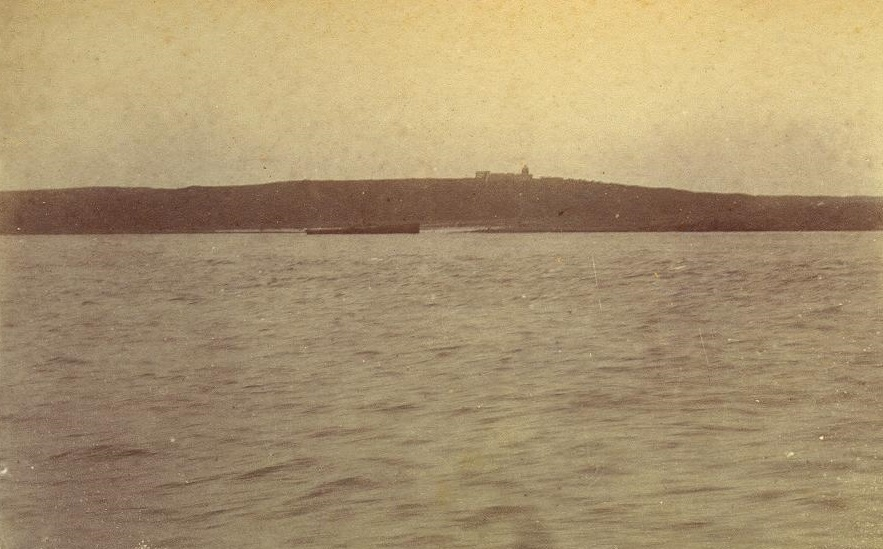 The island and lighthouse of Perim in 1883. A wreck is visible. Cropped section of a photograph taken by the passenger of a passing steamer, 10 January 1883. From a lighthouse, 38 feet in height, erected on the summit of Perim Island, is exhibited, at an elevation of 249 feet above the sea, a white light, which revolves once every minute, and visible in clear weather from a distance of 22 miles; within a distance of 15 miles the light has sometimes appeared to be continuous. (The Gulf of Aden Pilot, Hydrographic Office of the Admiralty, Third Edition, London, 1888)